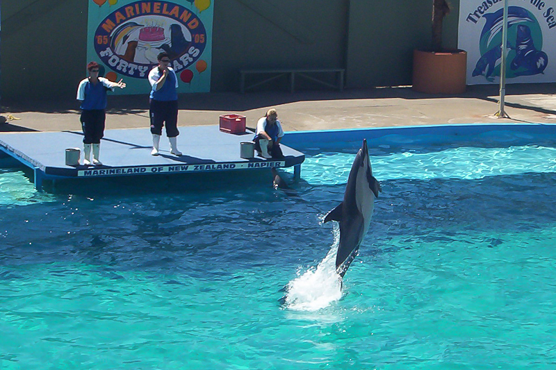 Dolphin doing tricks at Marineland, Napier